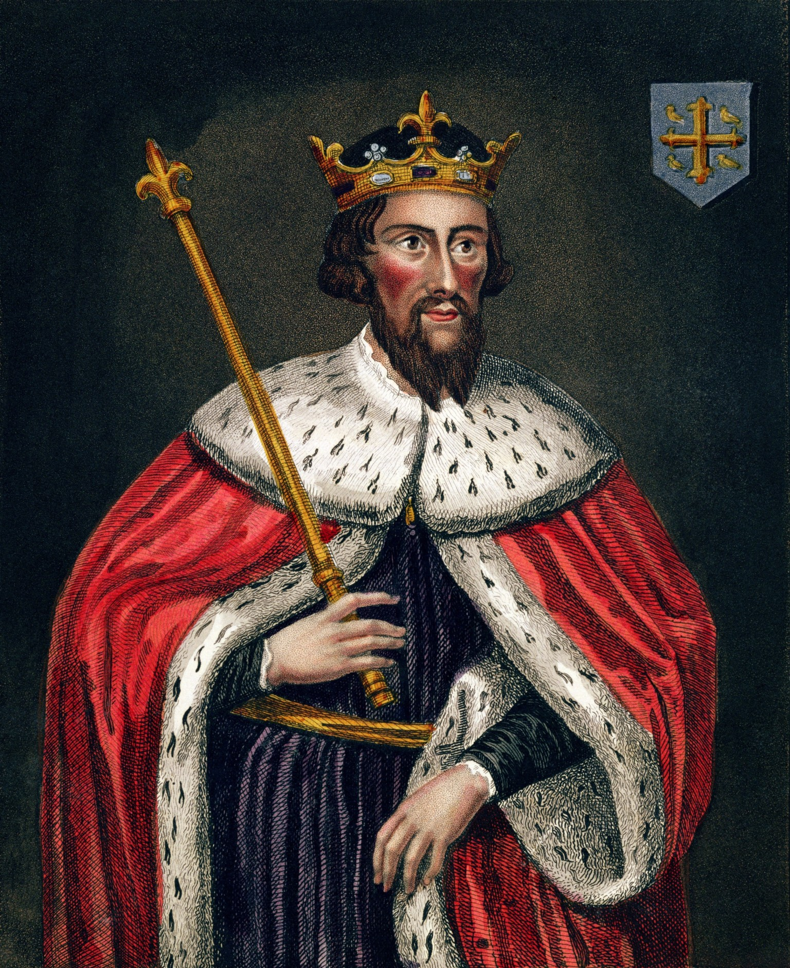 Alfred the Great (849-99), after a painting in the Bodleian Gallery (colour litho)